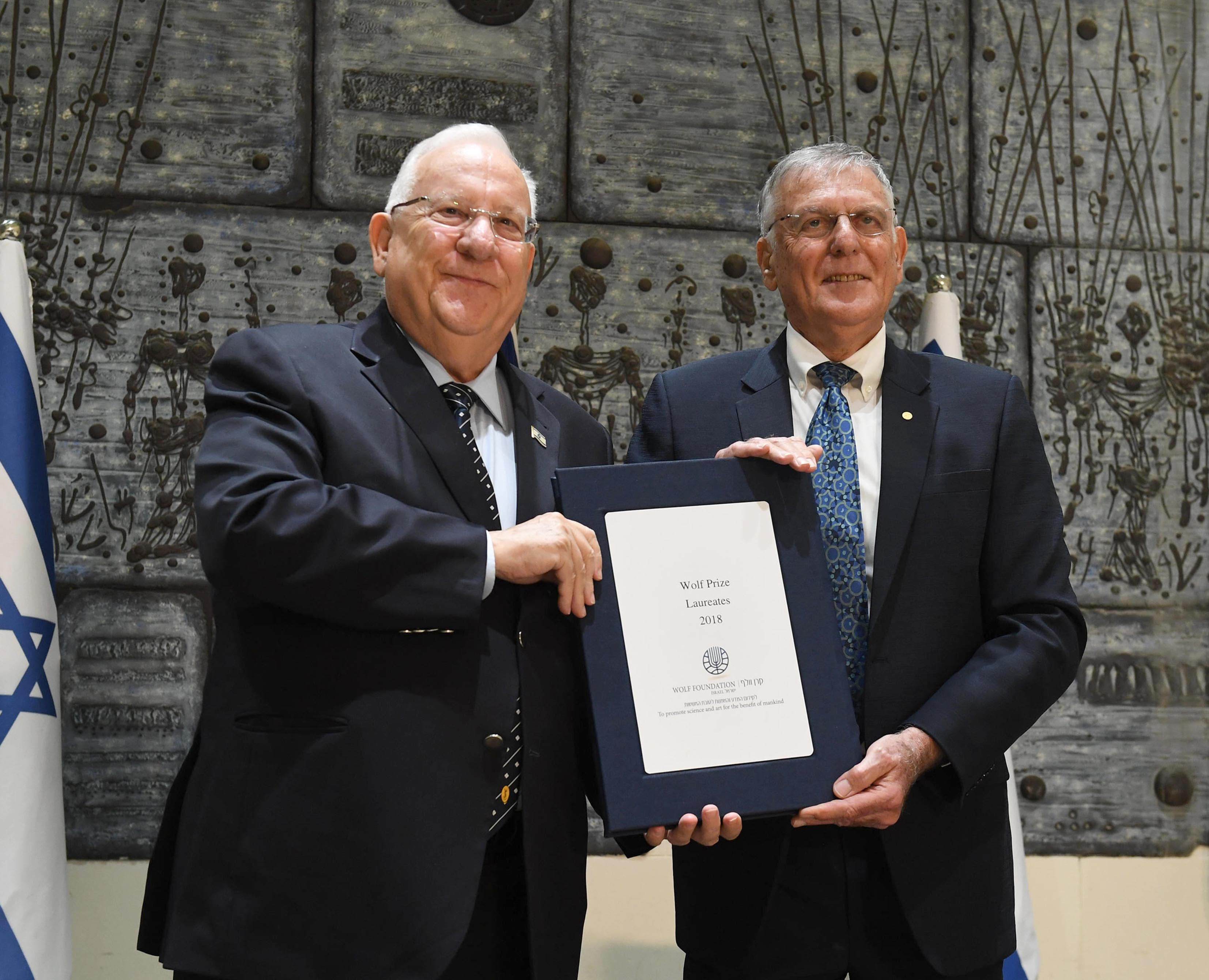 For the first time, the President of Israel, Reuven Rivlin, hosting the winners declaration event of 2018 Wolf Prize. Monday, February 12, 2018. Photo Credit: Mark Neyman / GPO.